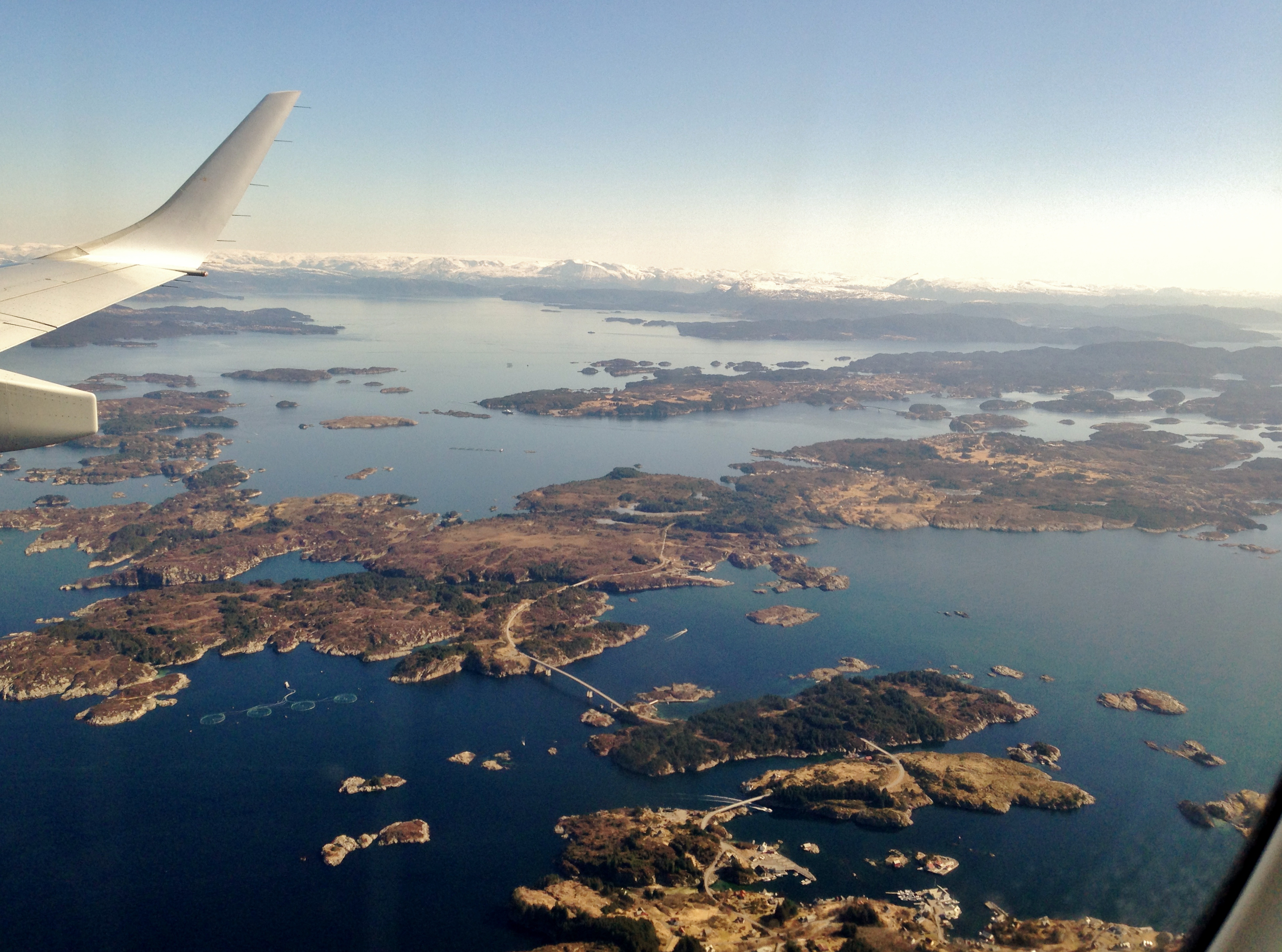 Northern Austevoll with Bjørnefjord in the background